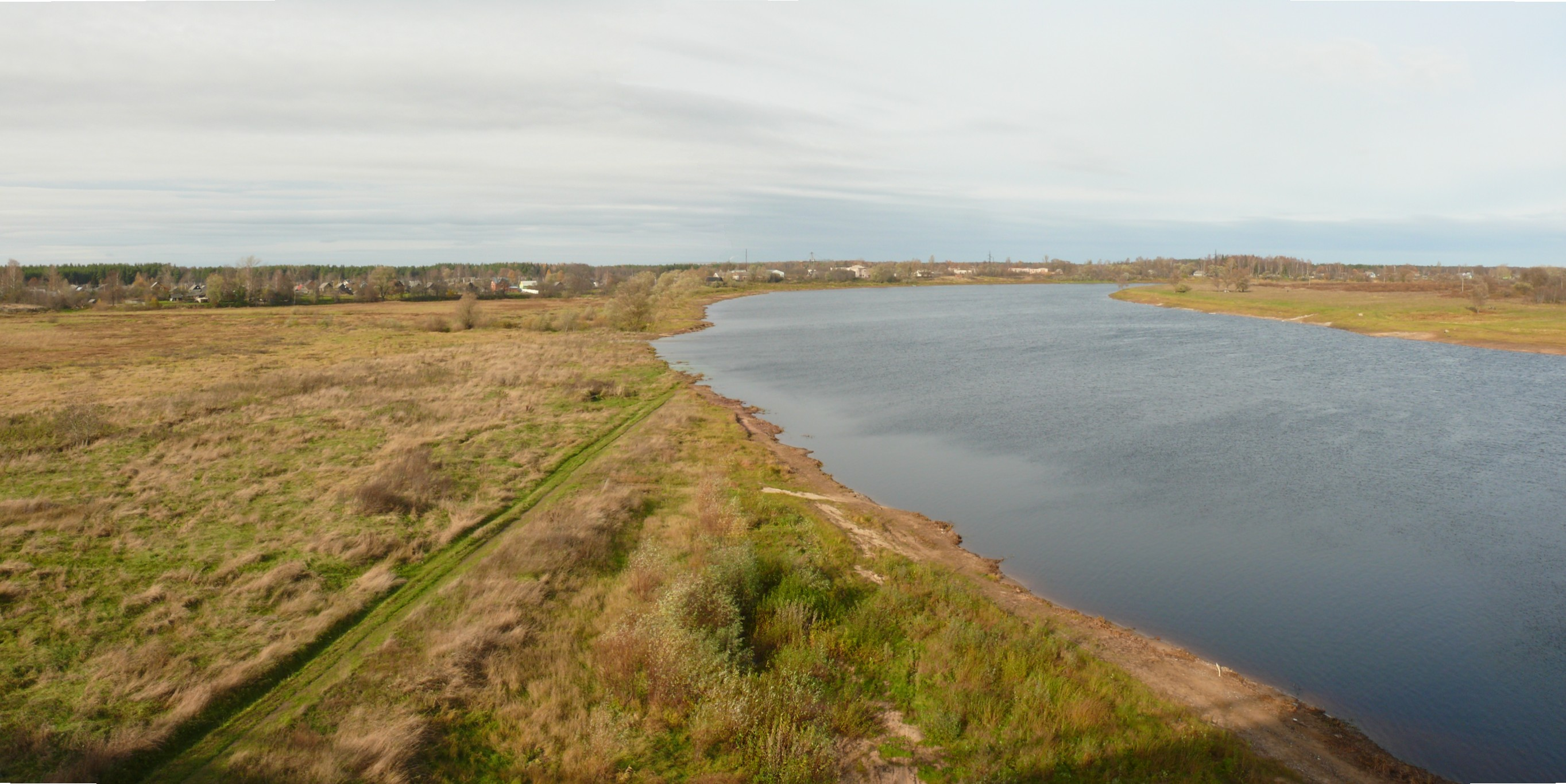 Lovat river near Parfino village, Novgorod oblast, Russia